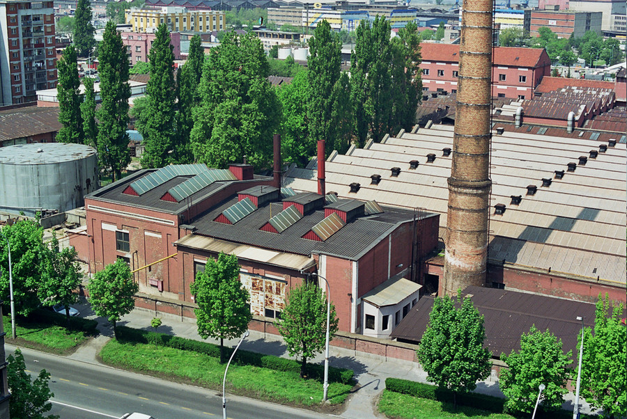 Factory Beogradski pamučni kombinat Srpski (latinica): Fabrika Beogradski pamučni kombinat